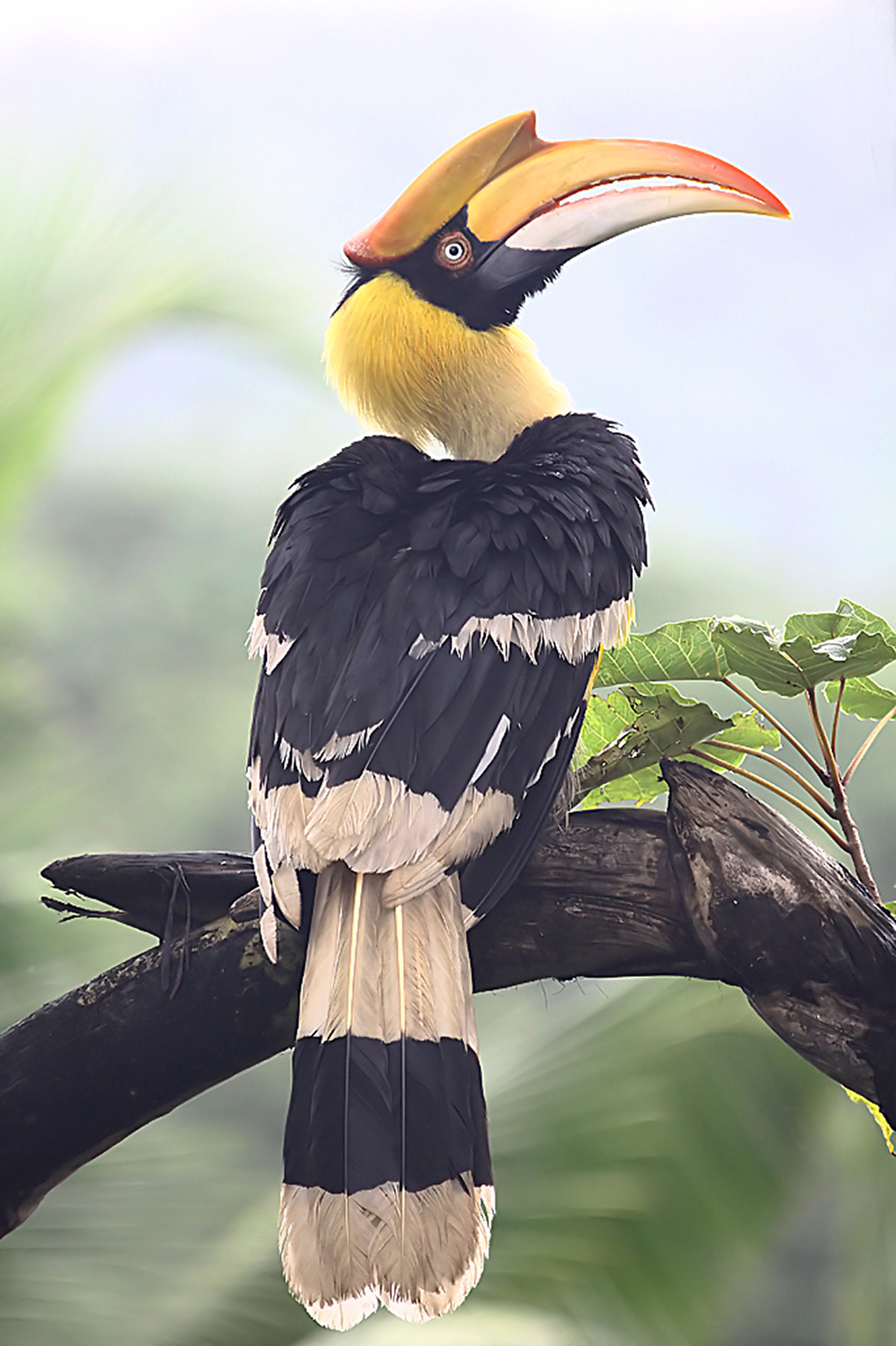 A majestic bird, once quite common, is now endangered.